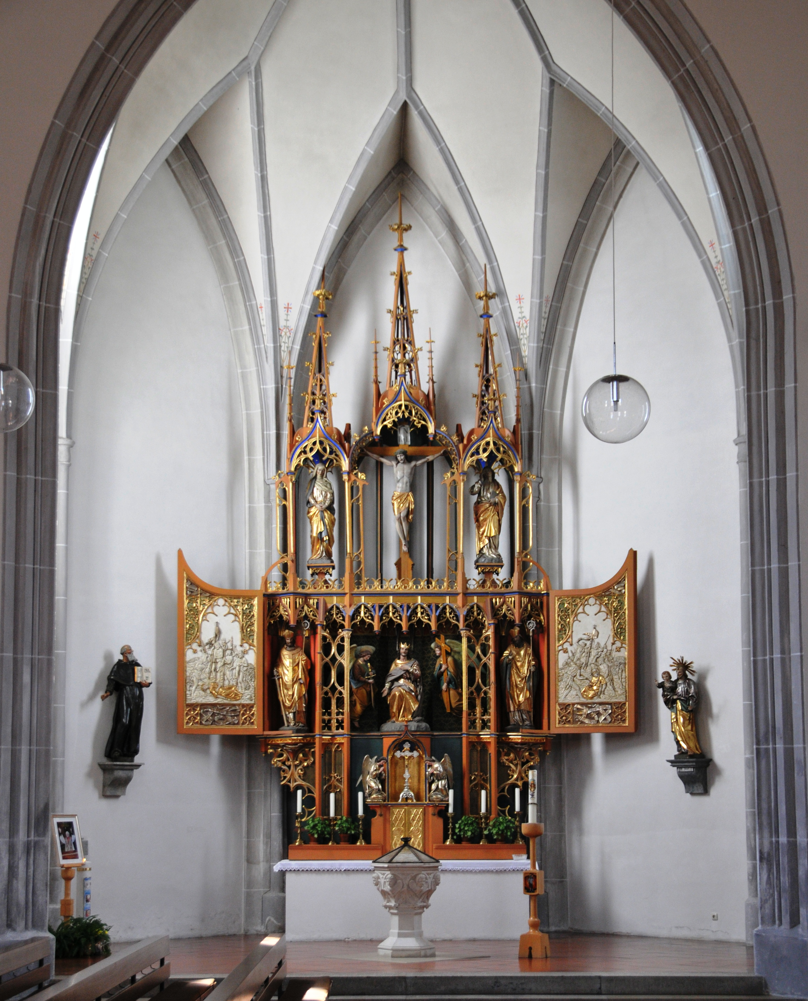 Marktl, St. Oswald church, St. Oswald altar and baptismal font of Pope Benedict XVI